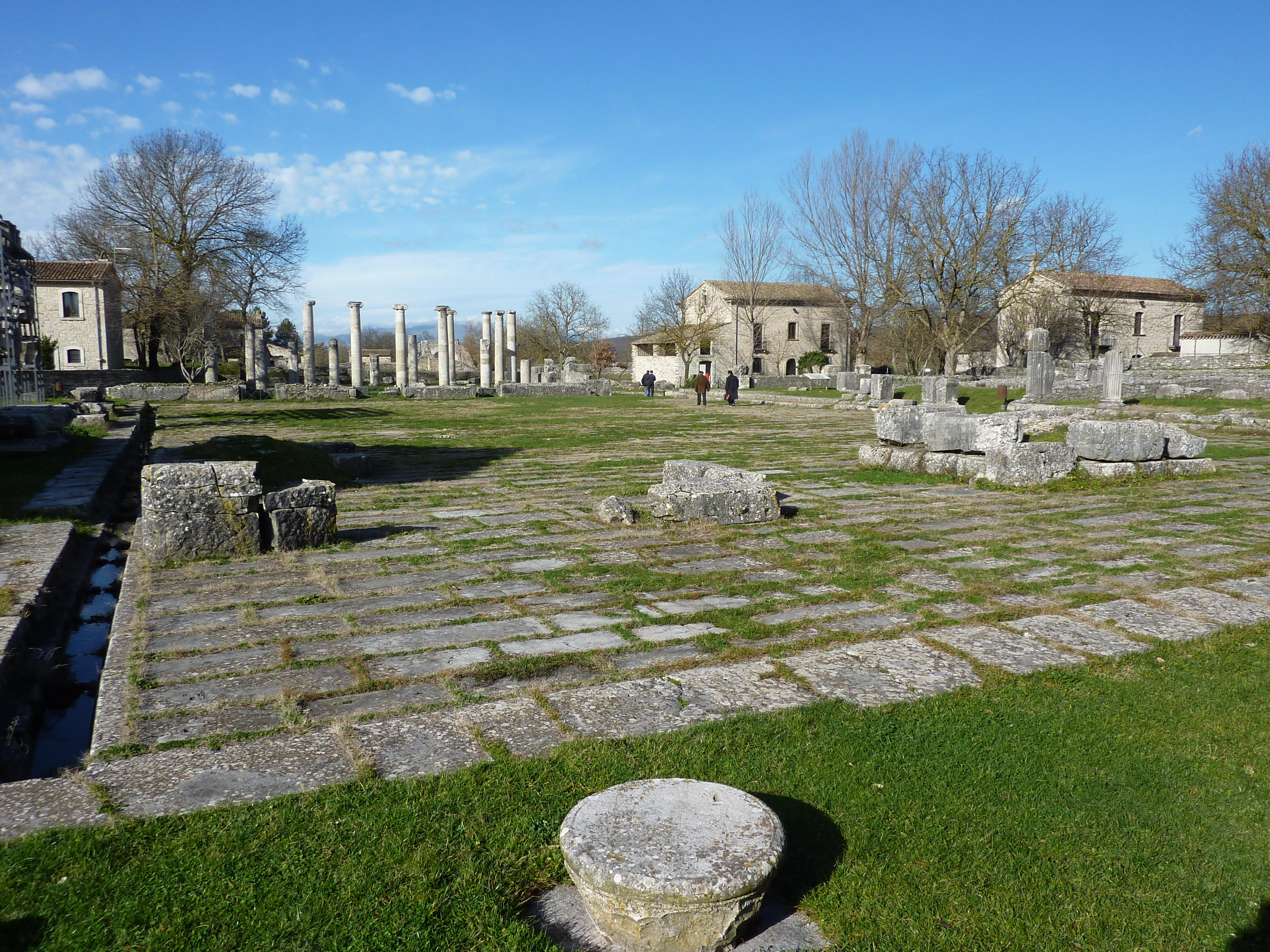 Altilia-Saepinum